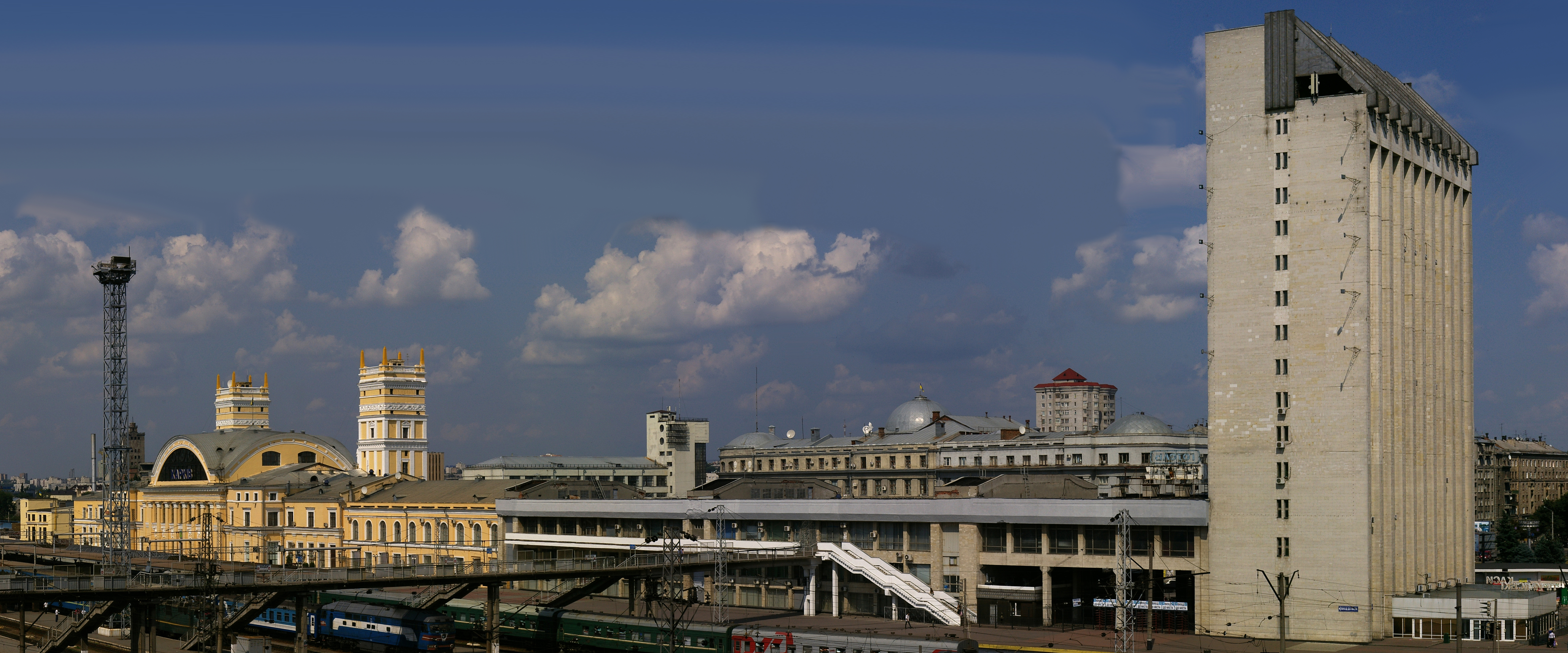 Central (South) Railway Station Building in Kharkov, Ukraine.